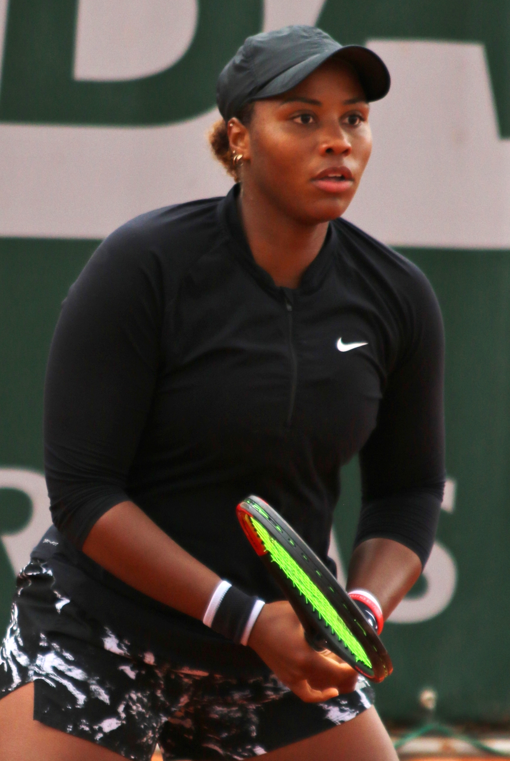 Townsend RG19 (29)